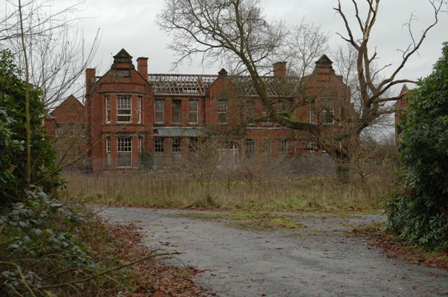 Whittingham Hospital As featured on the website